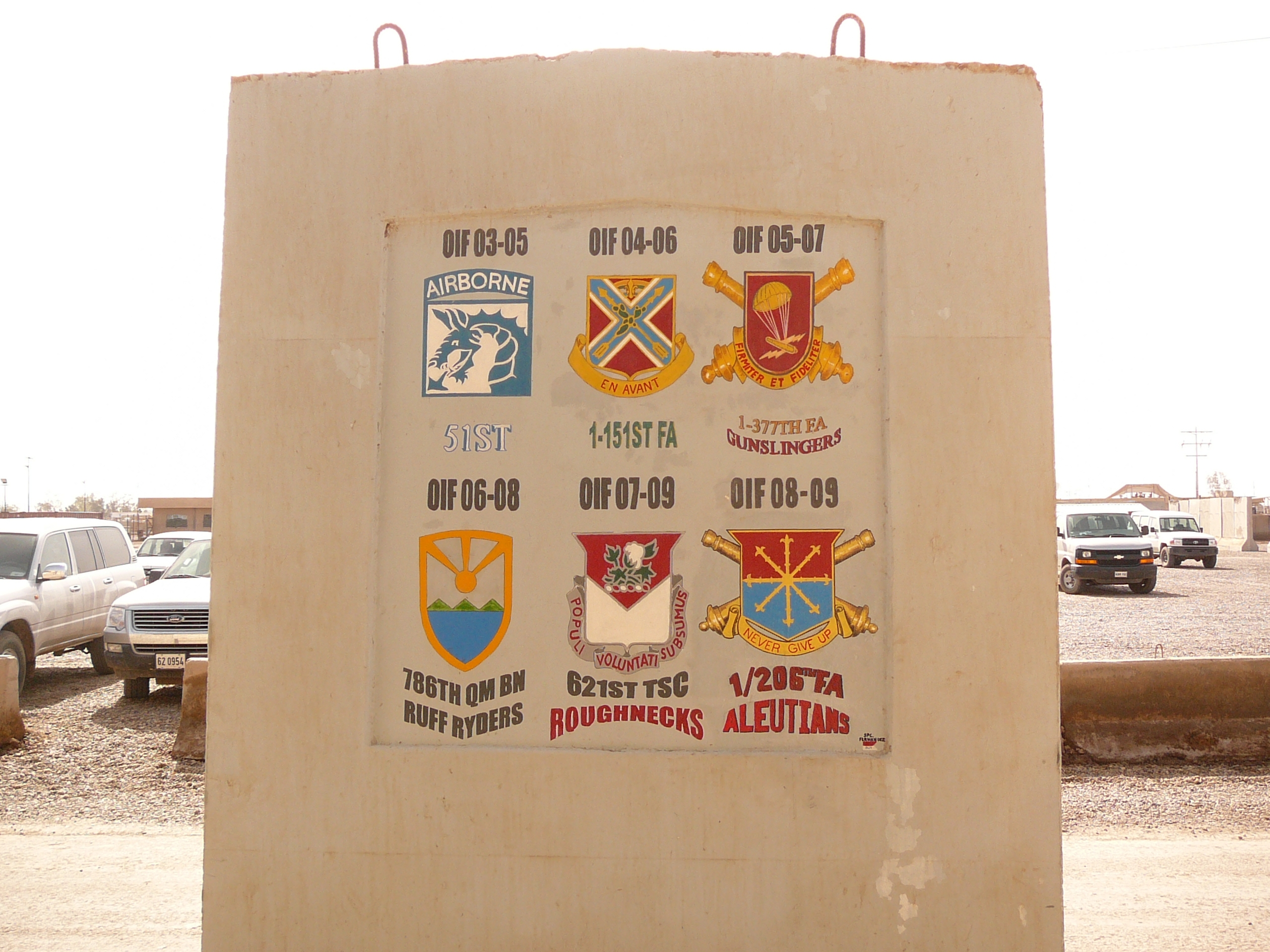 Photograph of a Barrier in front of the Taji Mayor Cell with the Crest of the Mayor Cells from OIF 04-05 through OIF 08-09